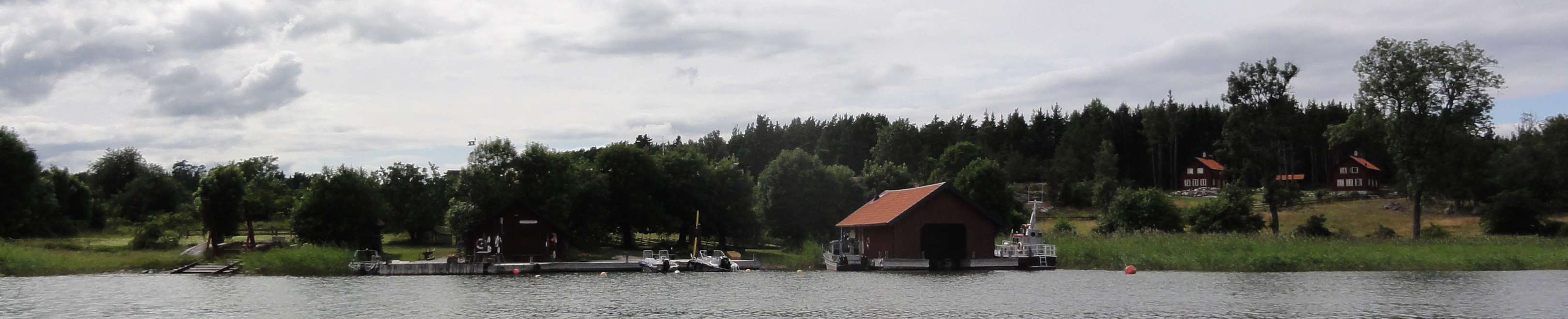 Väringsö, island in Stockholm archipelago